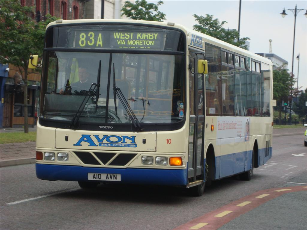 Avon Buses 10 (A10 AVN), a Volvo B6/Wright Crusader, in Birkenhead on route 83A. This was originally registered N901 NNR (from new in October 1997), and registered N100 ALS for a while when the vehicle was with operator Happy Al's.